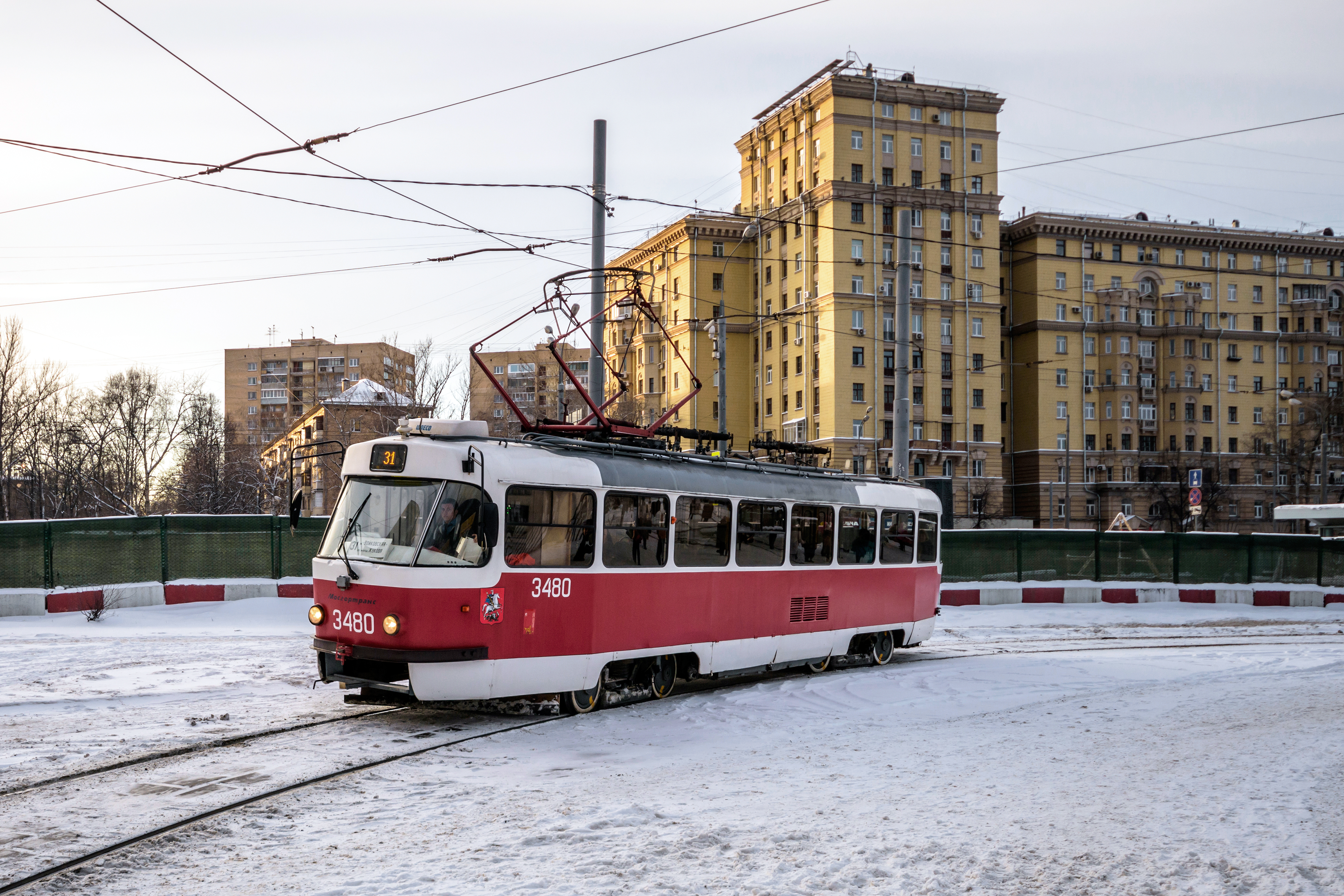 Tram Tatra T3 МТТА in Moscow